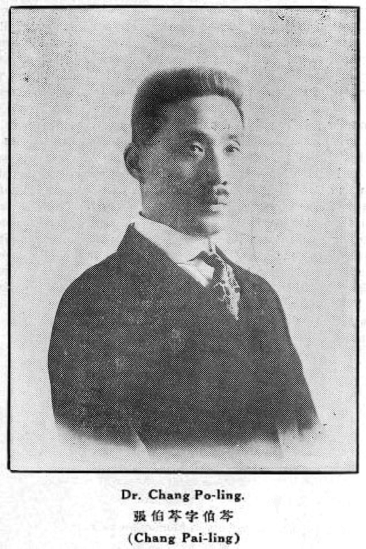 Zhang Boling (1876－1951)